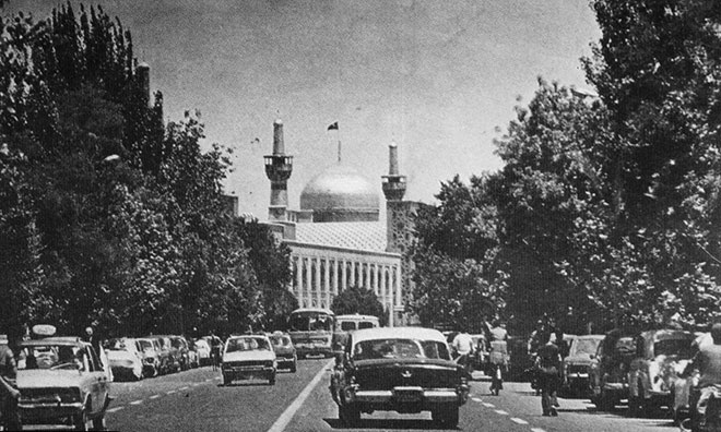 Tehran Street - Mashhad - 1956